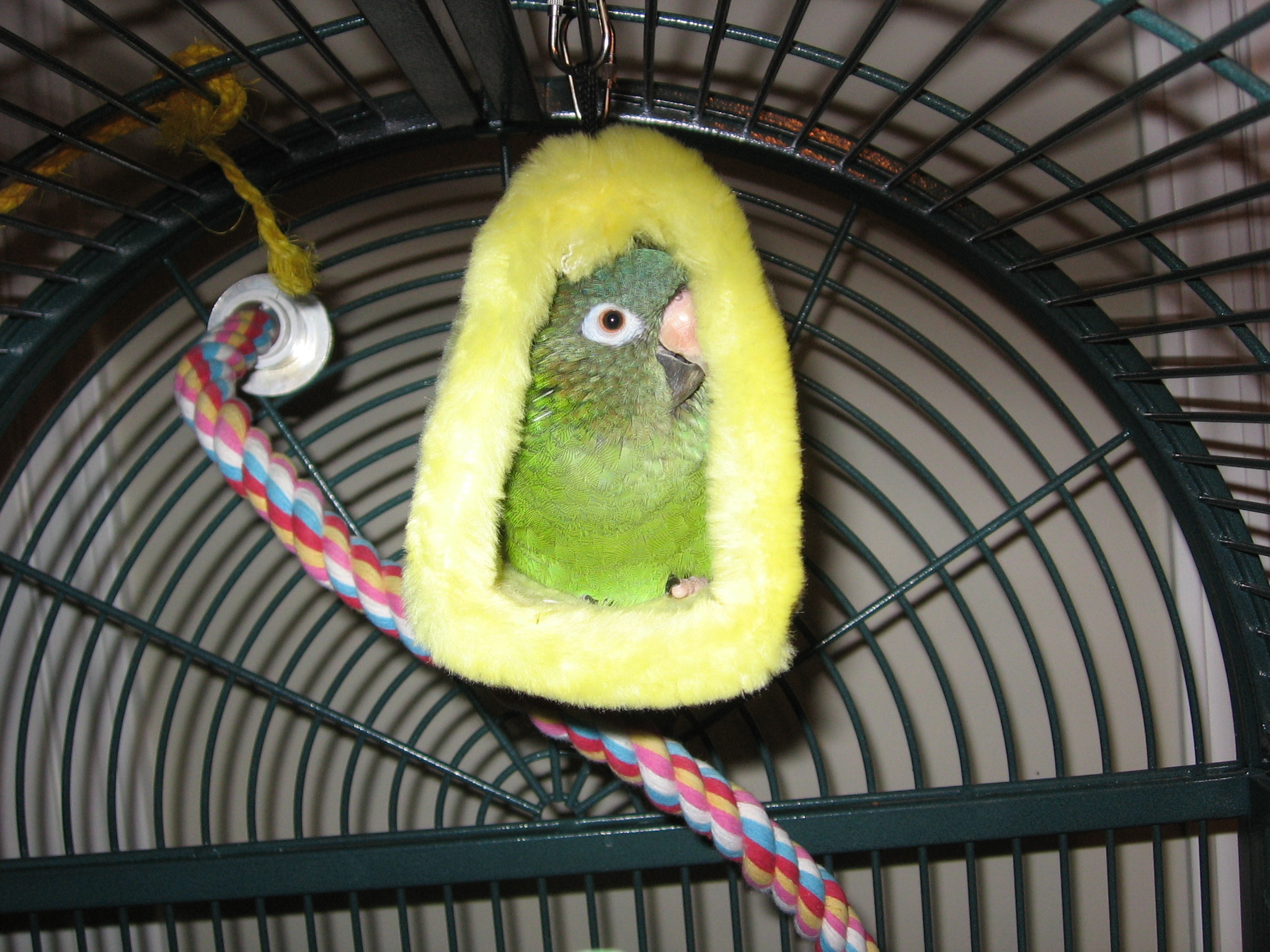 A Blue-crowned Parakeet/Conure named Kermit, sitting in a parrot sleep tent inside her cage.